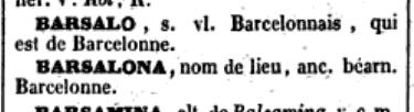 French definition of the old word "Barsalo" (Béarn language/Provençal language) which became a surname common in Canada and United States originating from France as Barsalo/Barsalou ("o" i pronounced "ou" in old Béarn language).